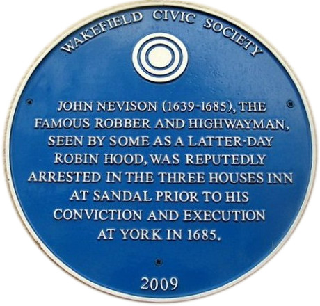 Blue plaque for John Nevison, erected in 2009 near the main entrance of the Three Houses Inn, Sandal Castle, Wakefield.